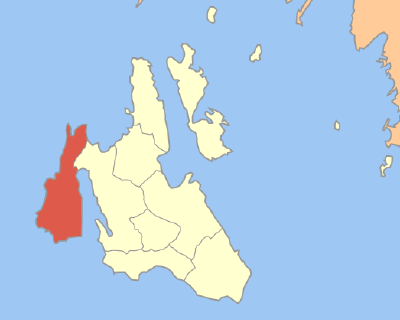 Locator map of Paliki municipality (Δήμος Παλικής) in Kefallinia prefecture (Νομός Κεφαλληνίας) in Greece.